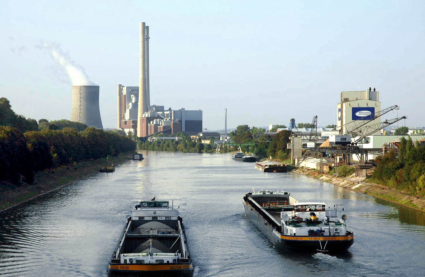 domestic port of Heilbronn (Germany), EnBW power plant in the background.